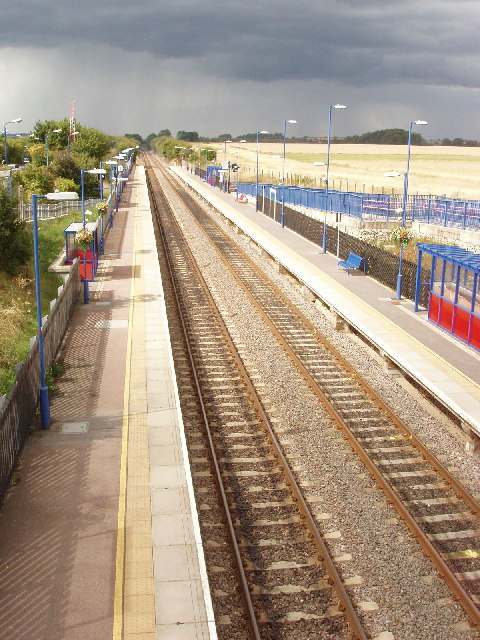 View northwest at Haddenham and Thame Parkway railway station, Haddenham, Buckinghamshire